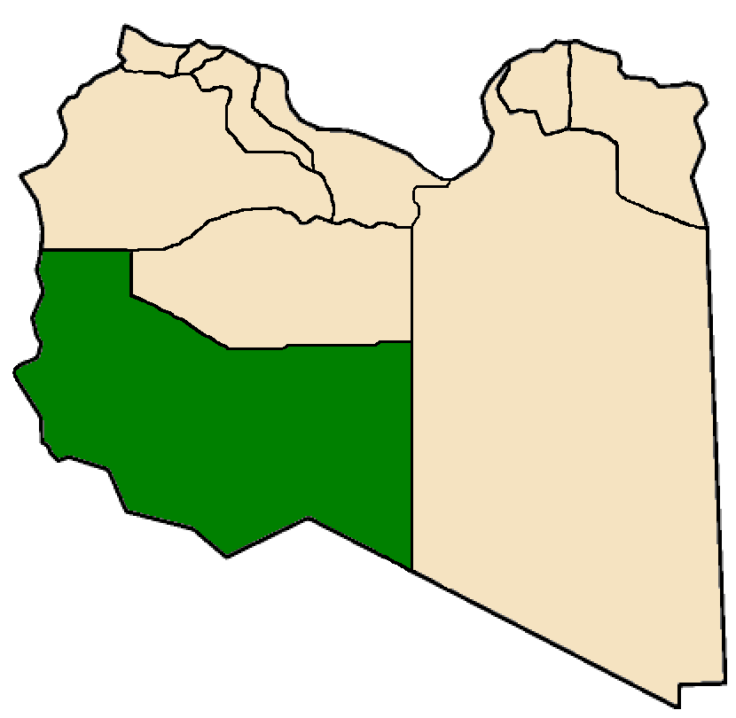 Location of Awbari Governorate 1963-1973 (Ubari Governorate) of the Fezzan region in southwestern Libya